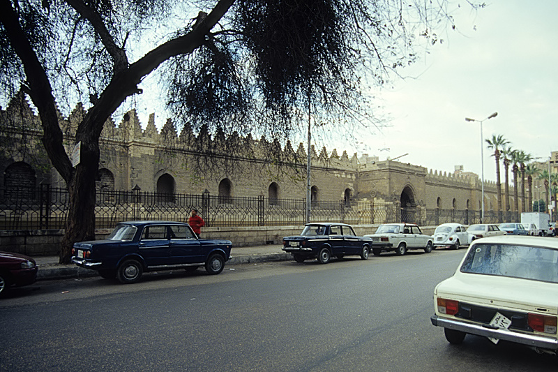 Outer wall of the Mosque of Baybars I., el-Zahir/el-Dahir, cairo, Egypt